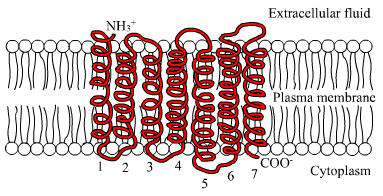 7 TM receptor drawn by User:Bensaccount.